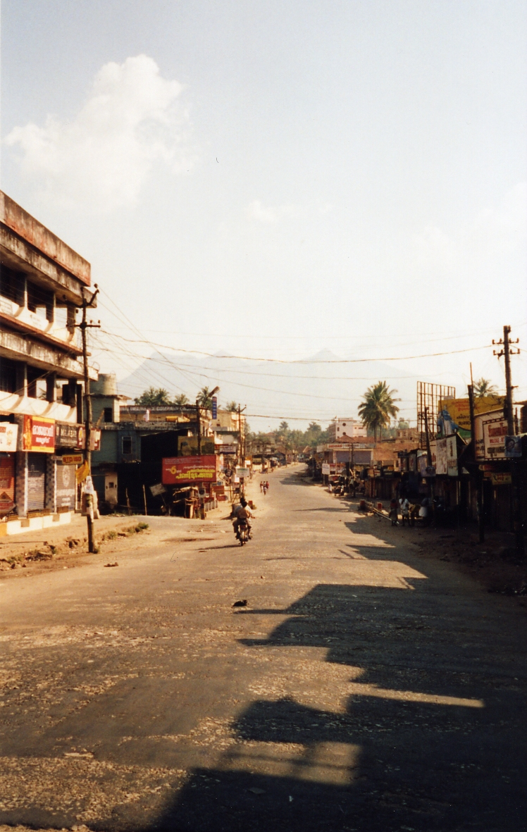 Photo: Soman